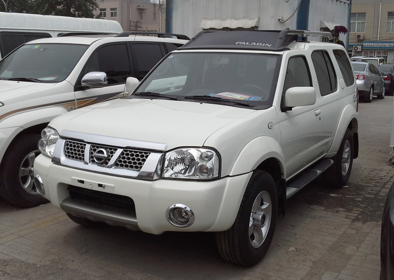 Nissan Paladin photographed in a second-hand car market in Beijing, China.